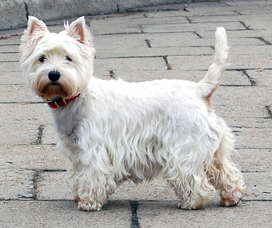 A West Highland White Terrier in Krakow, Poland. Cropped by Pharaoh Hound.